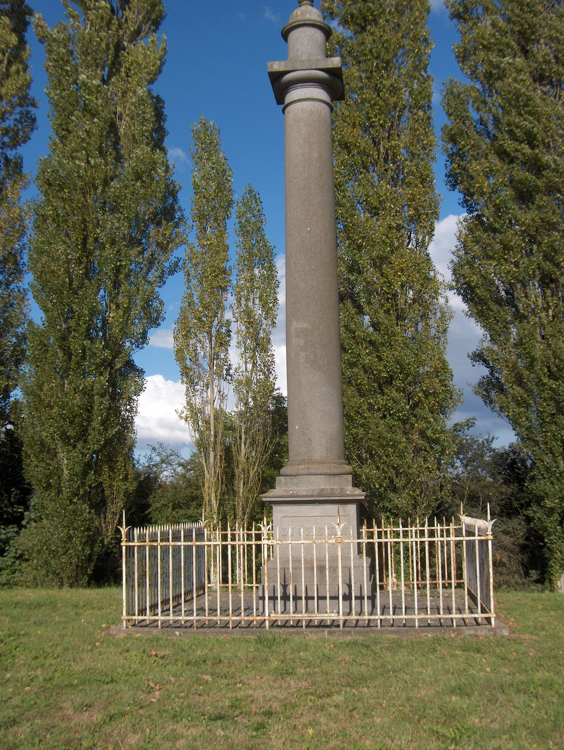 A column in memory of Bertrand du Guesclin in Broons, France.